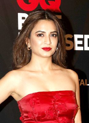 Kriti Kharbanda at the GQ Best Dressed Awards 2017